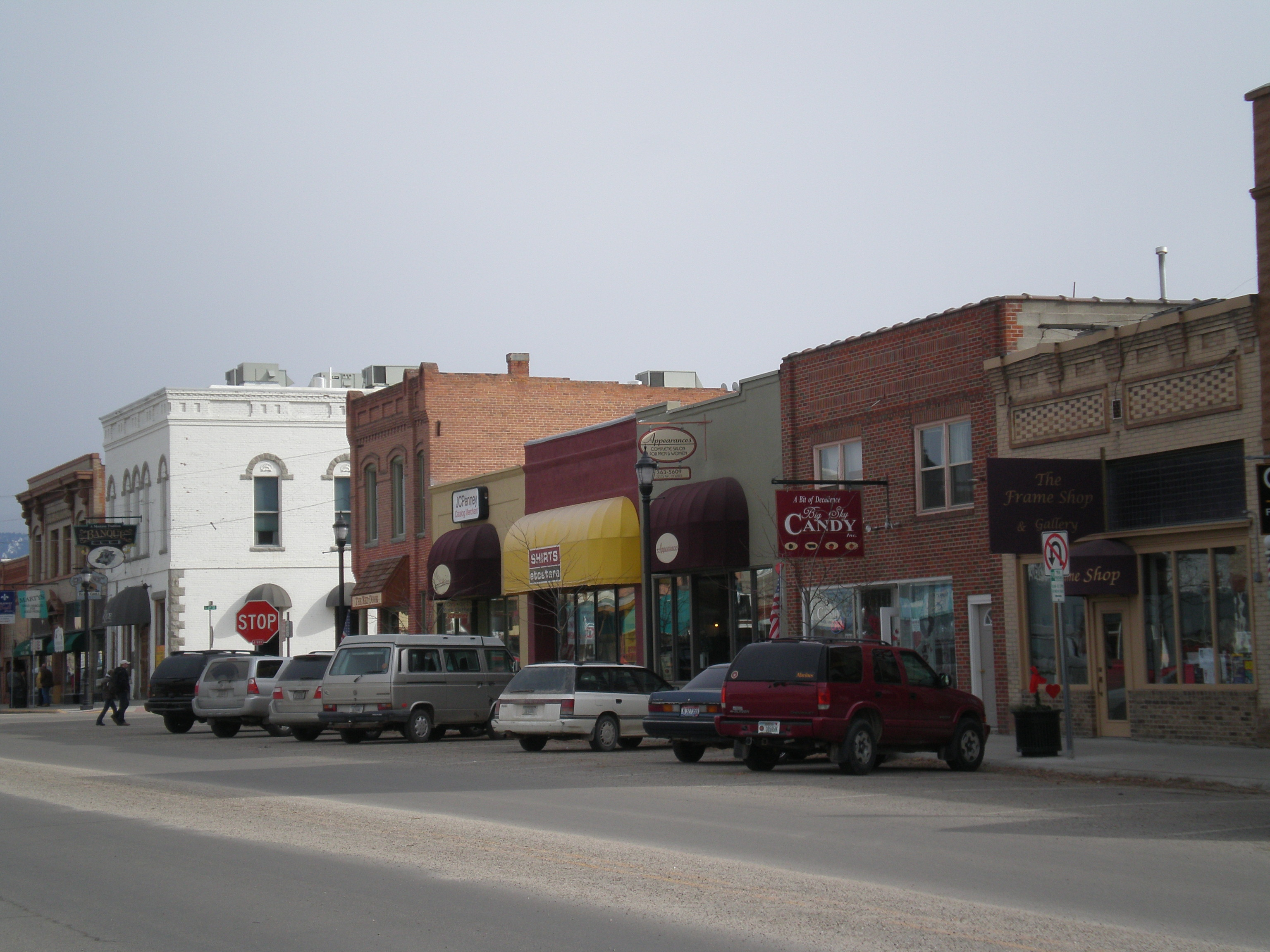 Main street in Hamilton, Montana, USA